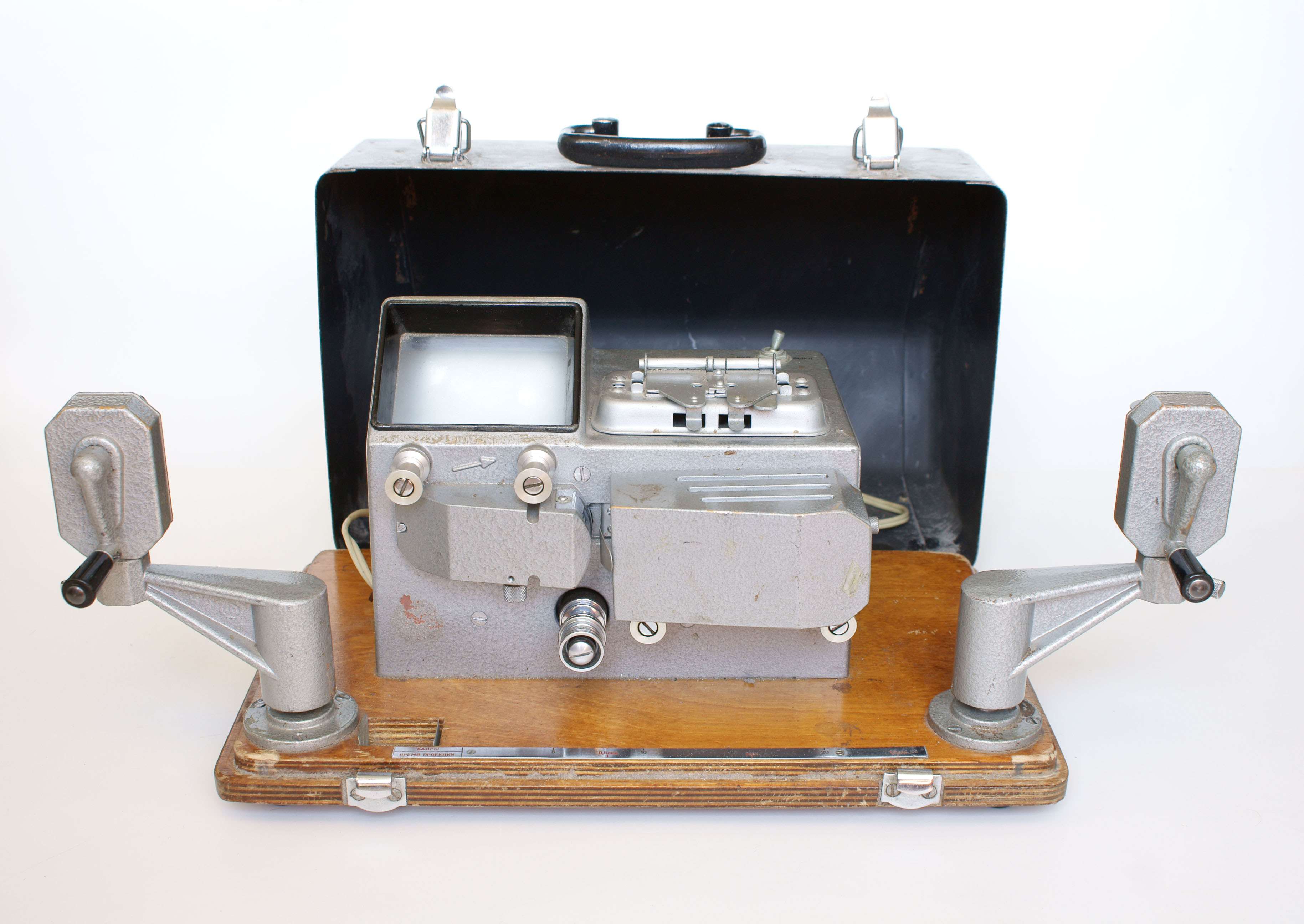 Soviet 16 mm compact film editing machine Ekran-16.